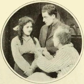 Still from the American western film Sympathy Sal (1915) with Teddy Sampson and two unidentified actors, on page 25 of the May 1922 Photoplay.